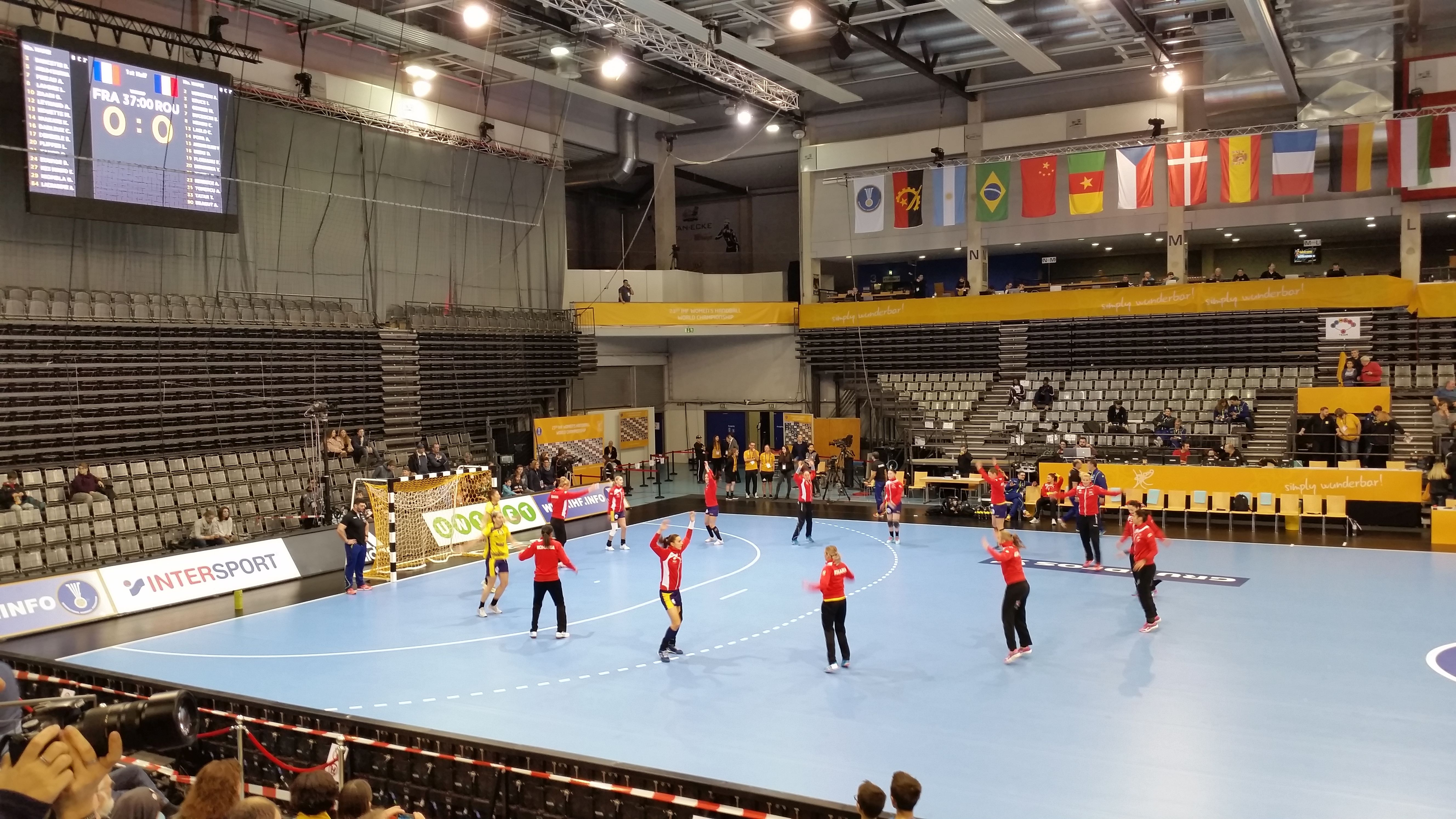 Romania's team on December 8th, 2017, stretching prior to the game against France at the IHF World Women's Handball Championship.